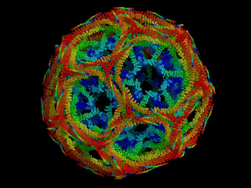 CLATHRIN D6 COAT - PDB entry:1XI4